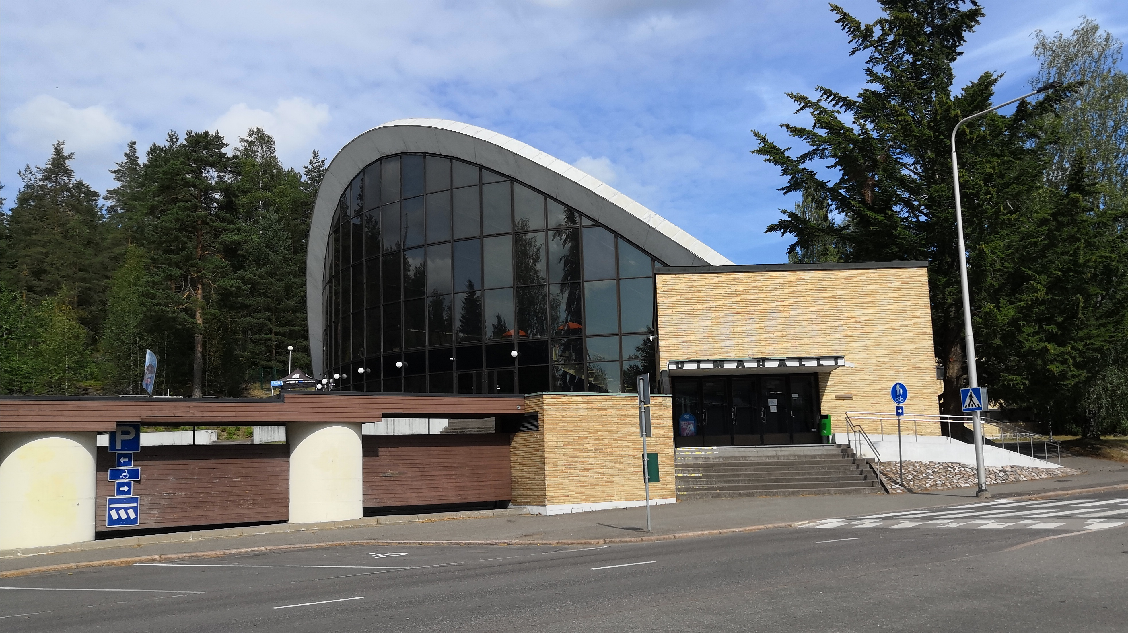 Kouvolan Urheilupuiston uimahallin sisäänkäynti (elokuu 2019)